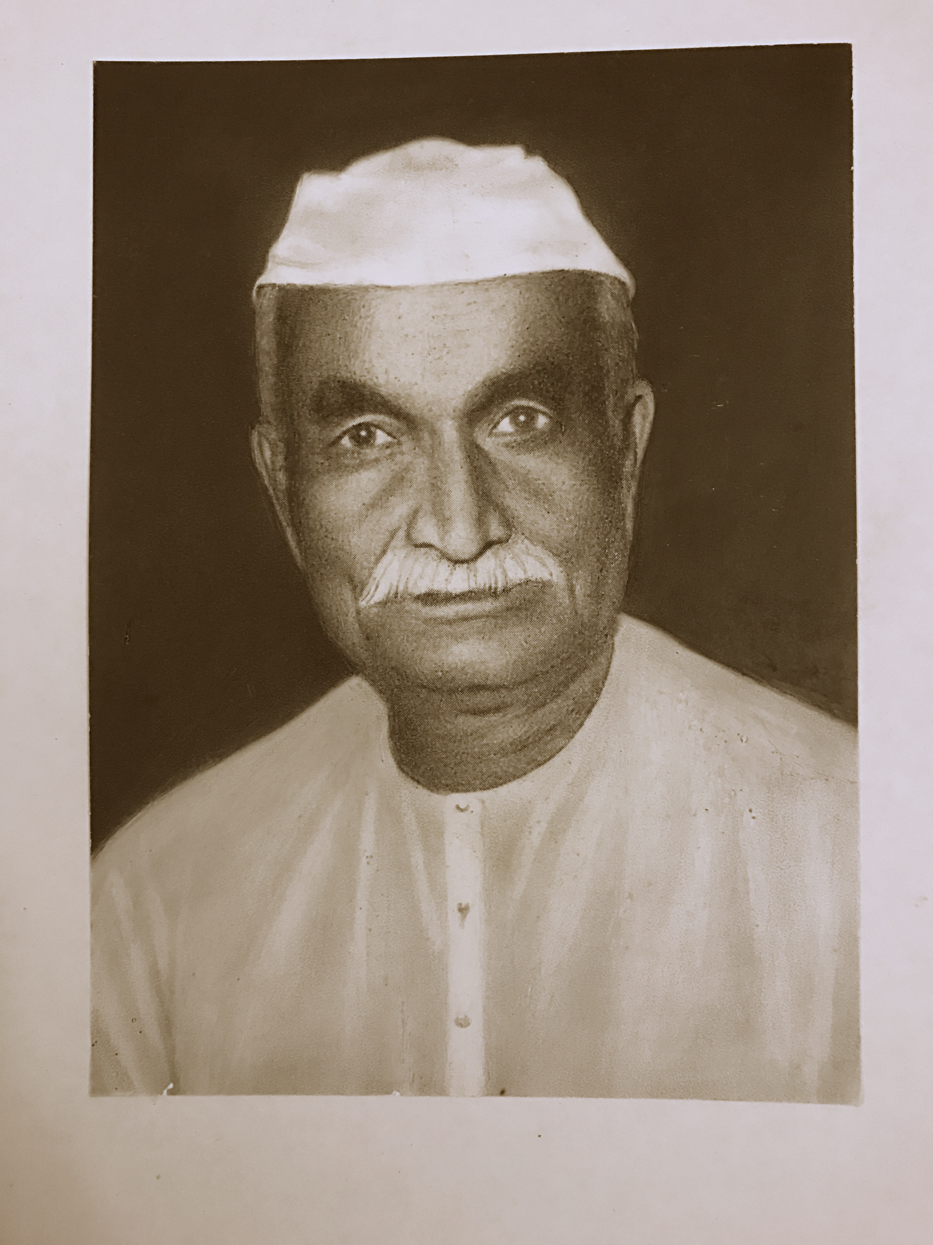 Picture of portrait of Bibhuti Mishra